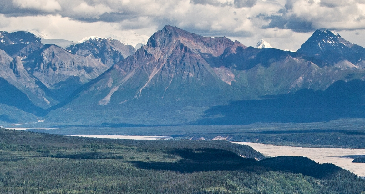 Williams Peak west aspect from Nizina River valley